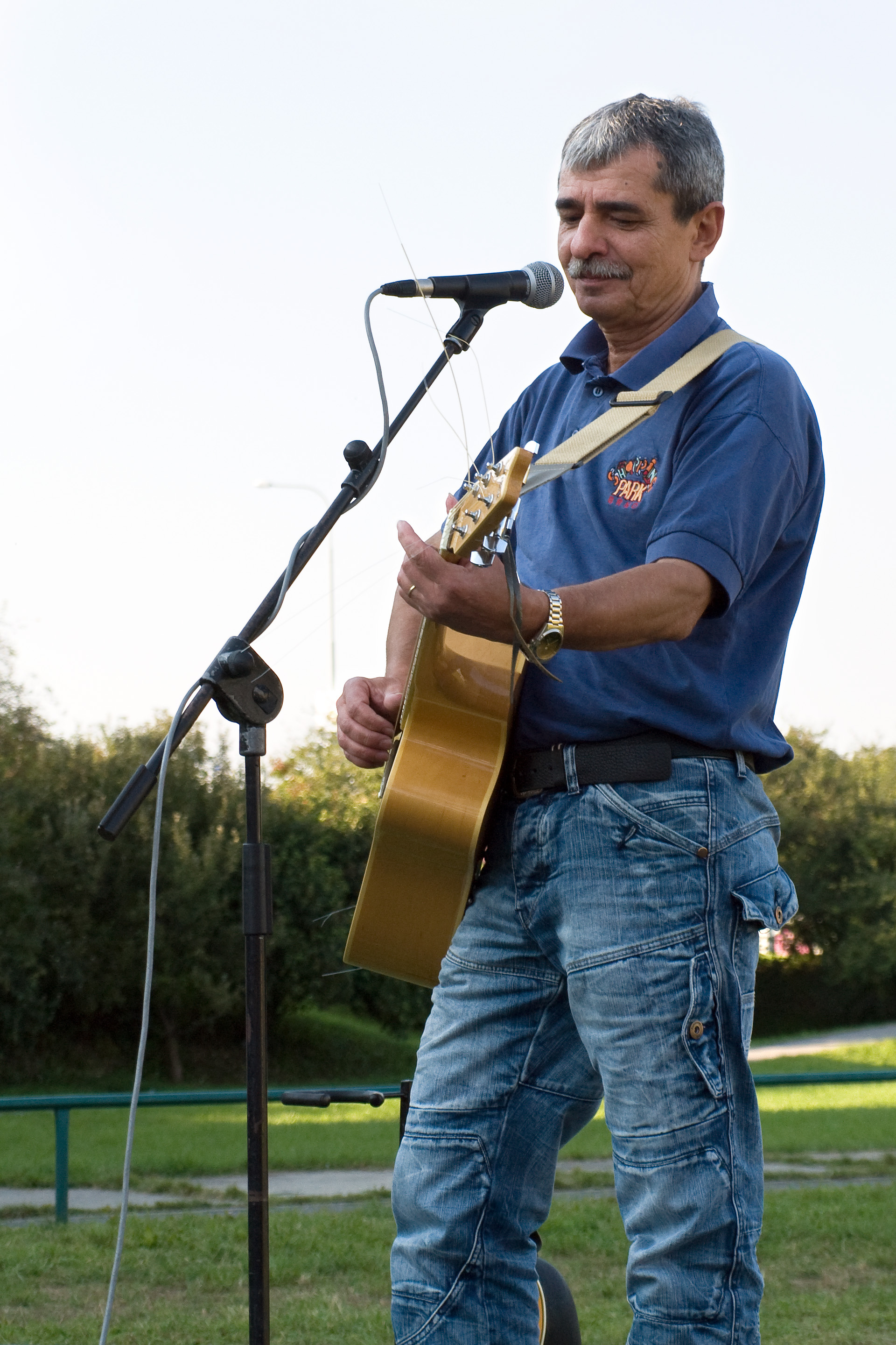 Czech folk singer-songwriter and guitarist Pavel Dobeš